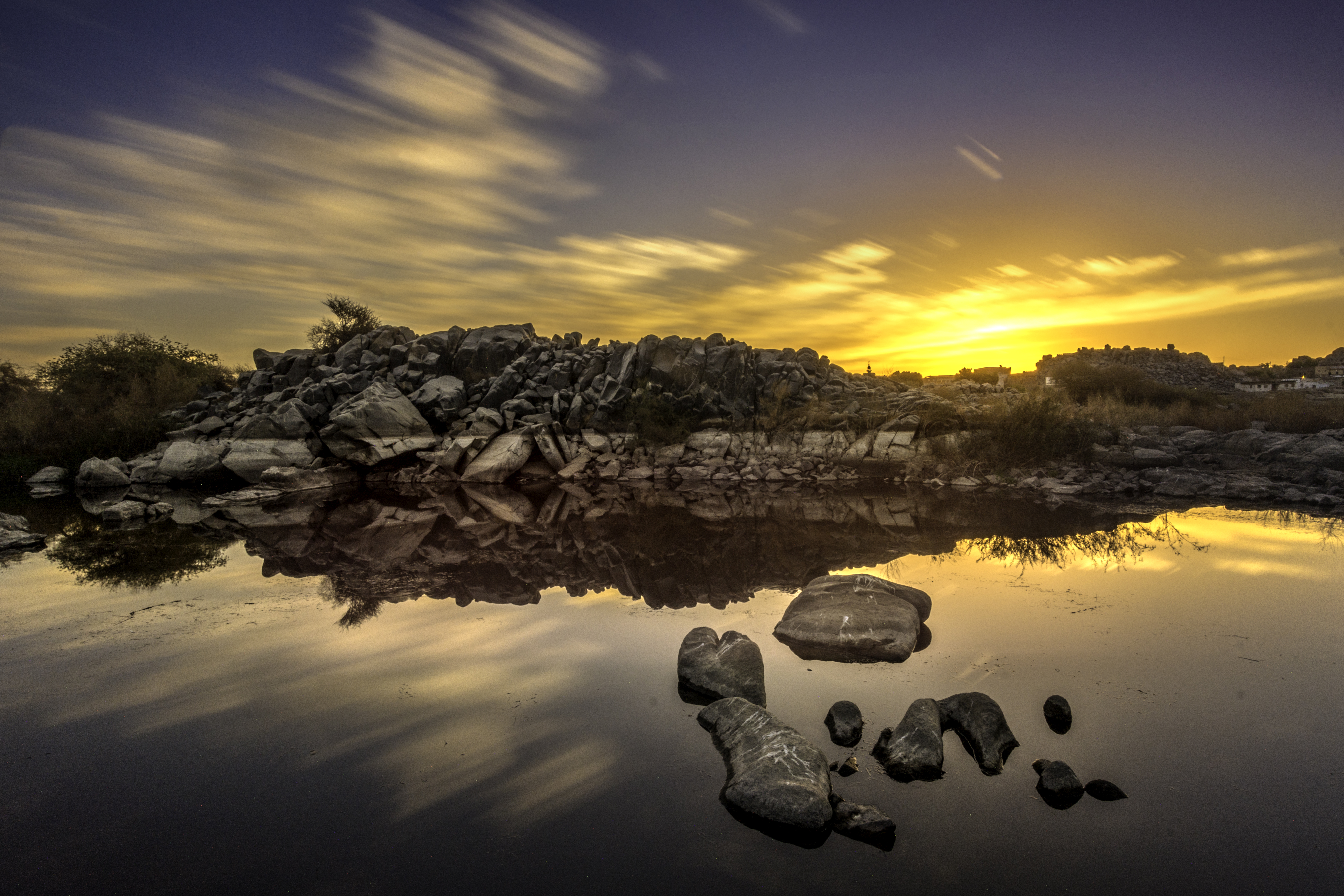 he photo was taken in aswan .. and it shows how nile river is an iconic with its rock formations and islands found in-between the nile